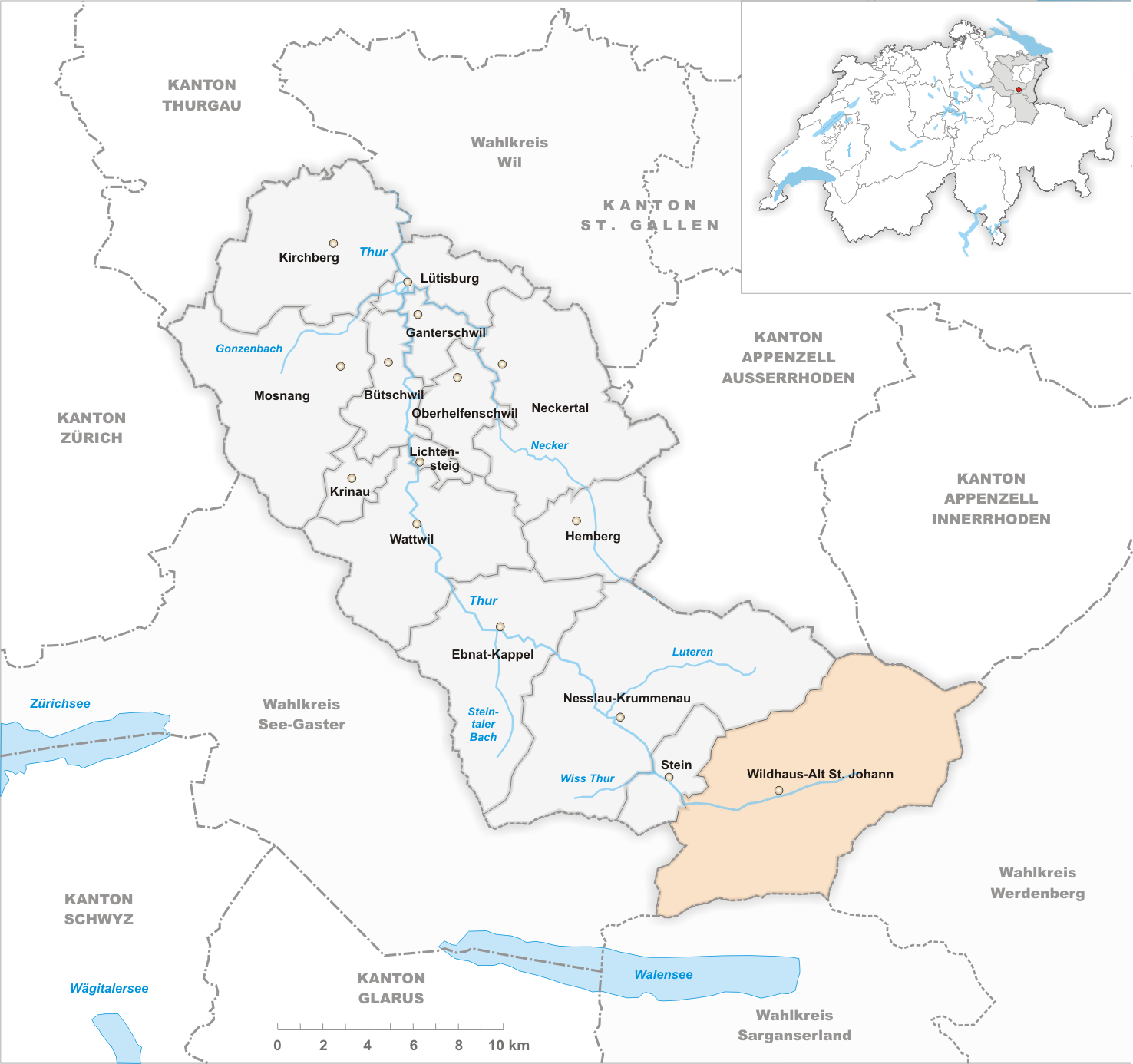 Municipality Wildhaus-Alt St. Johann